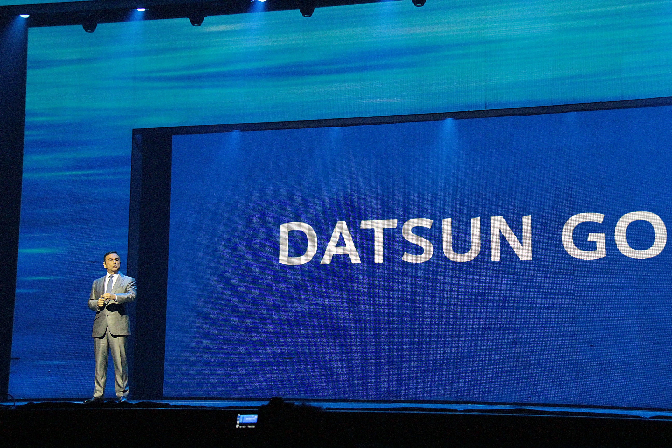 Carlos Ghosn at Datsun Launch New Delhi India 07/15/2013 - Picture by Bertel Schmitt